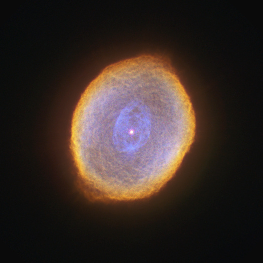 Here's another one of those rainbow colored nebulas, aptly named the Spirograph Nebula . Red: hst_08773_10_wfpc2_f658n_pc_sci Green: hst_06353_09_wfpc2_f656n_pc_sci Blue: hst_08773_10_wfpc2_f502n_pc_sci North is up.